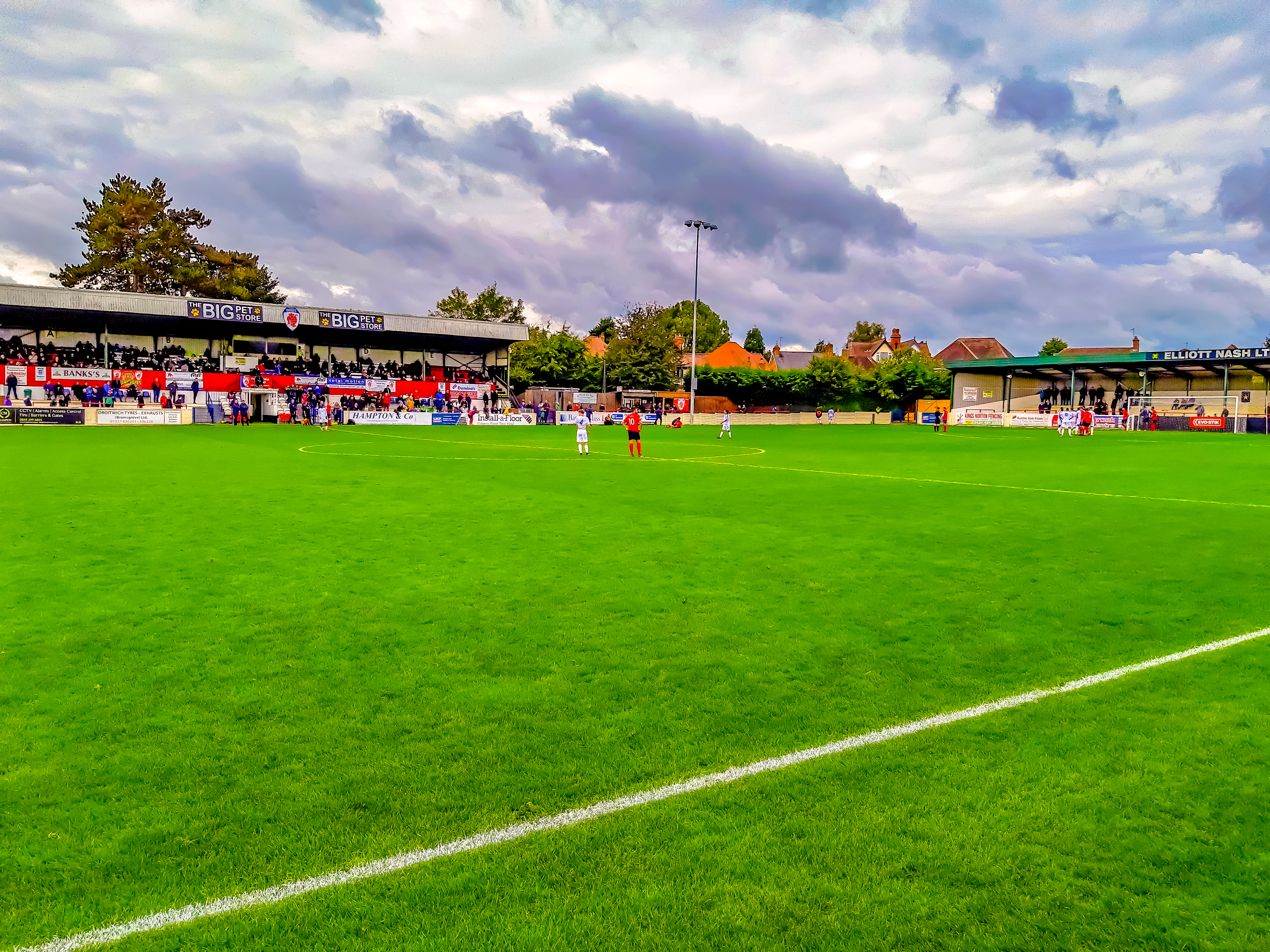 View of the shed and and main stand of the Victoria Ground